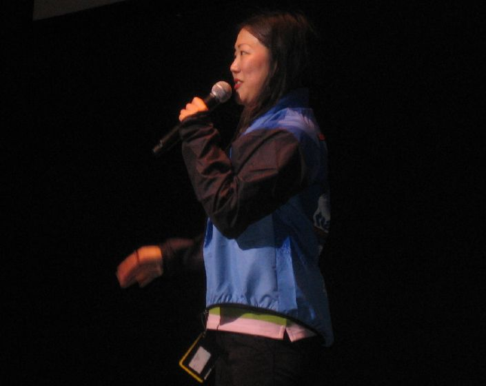 Margaret Cho wearing the Team San Francisco jacket